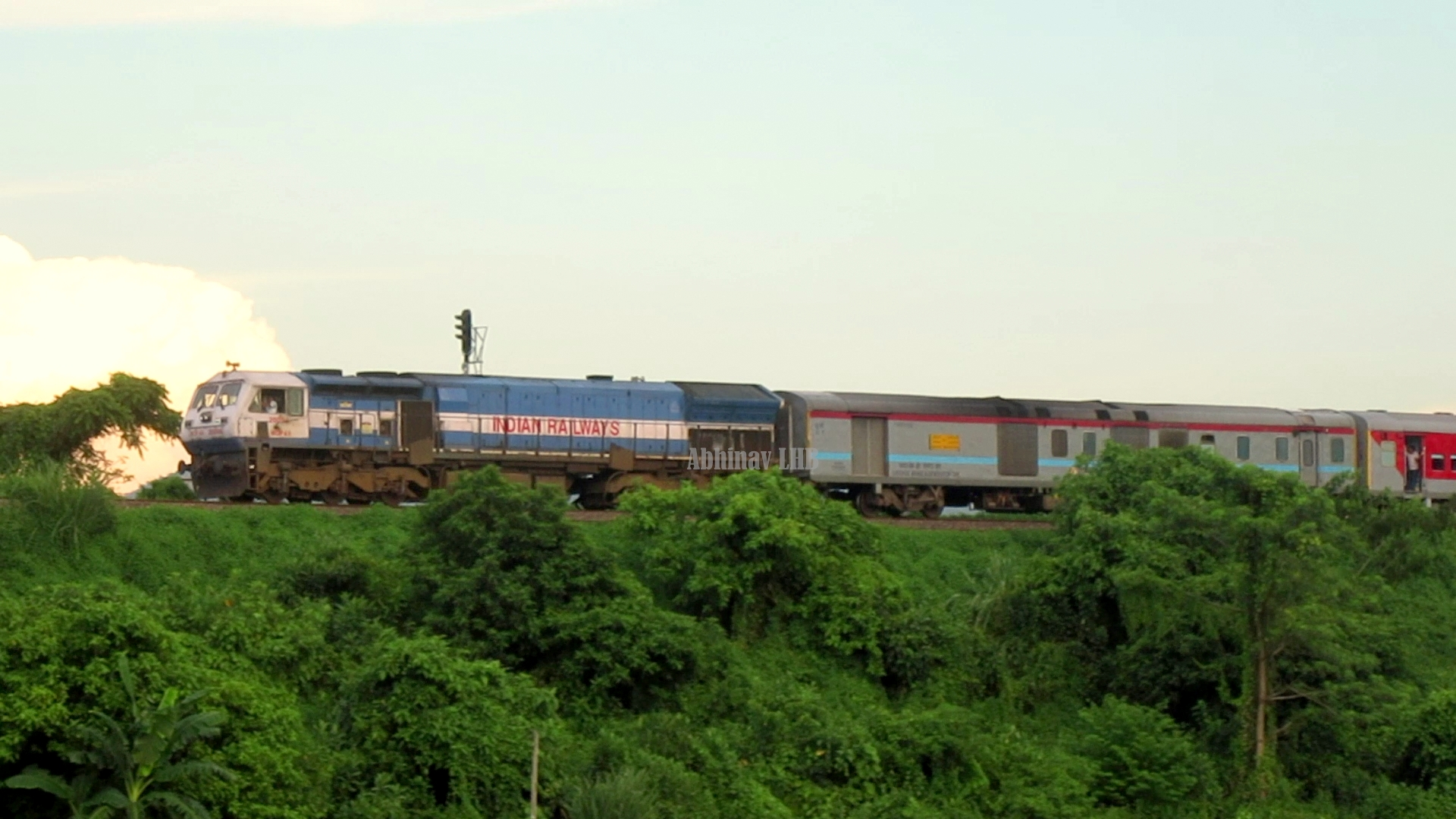 15624 Kamakhya - Bhagat-ki-kothi (BGKT) Express hauled by BGKT EMD WDP4 #20098; captured at Jalukbari, Guwahati. Please do watch the video